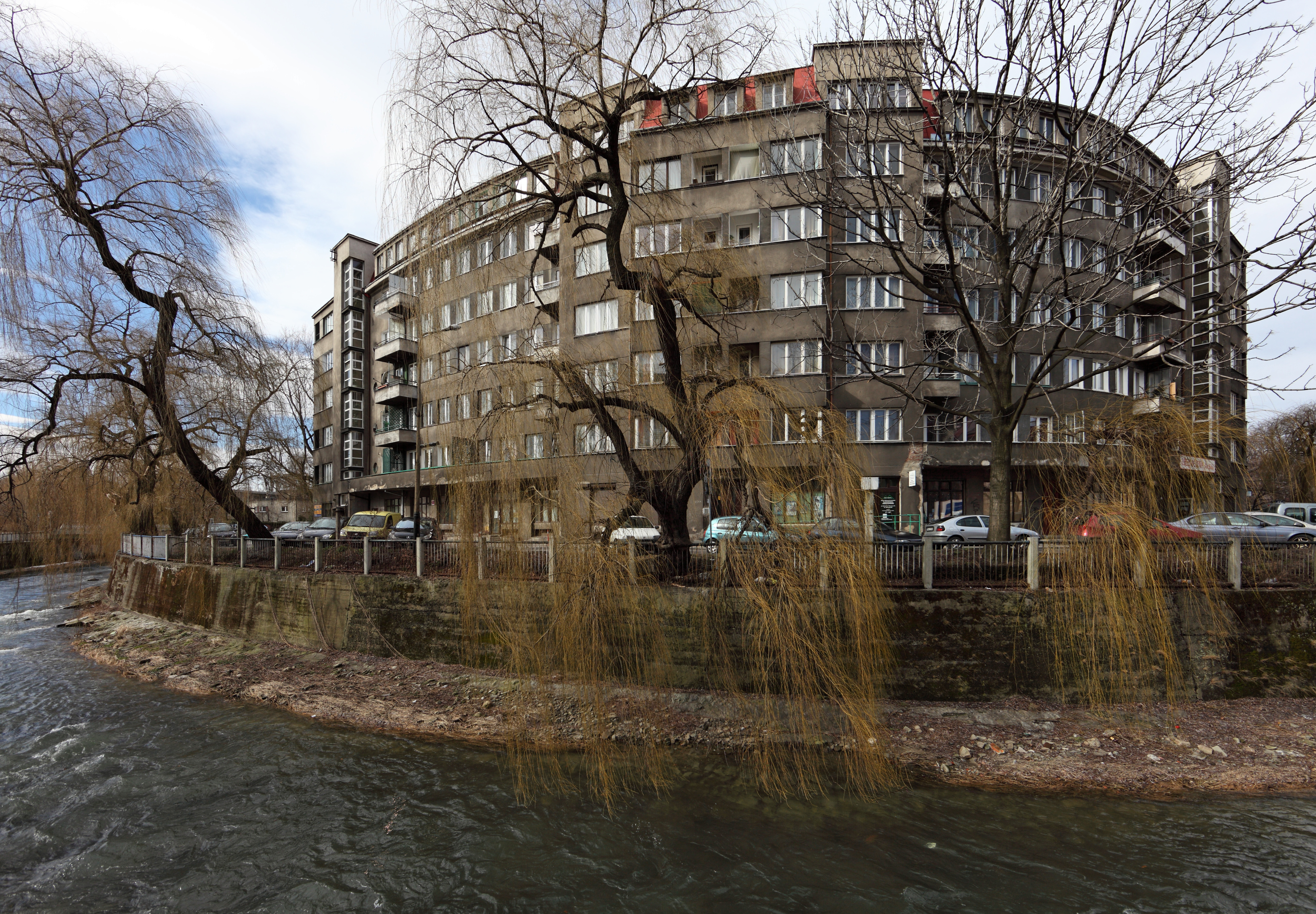 Bielsko-Biała, Poland - modern movement building at Biała river.